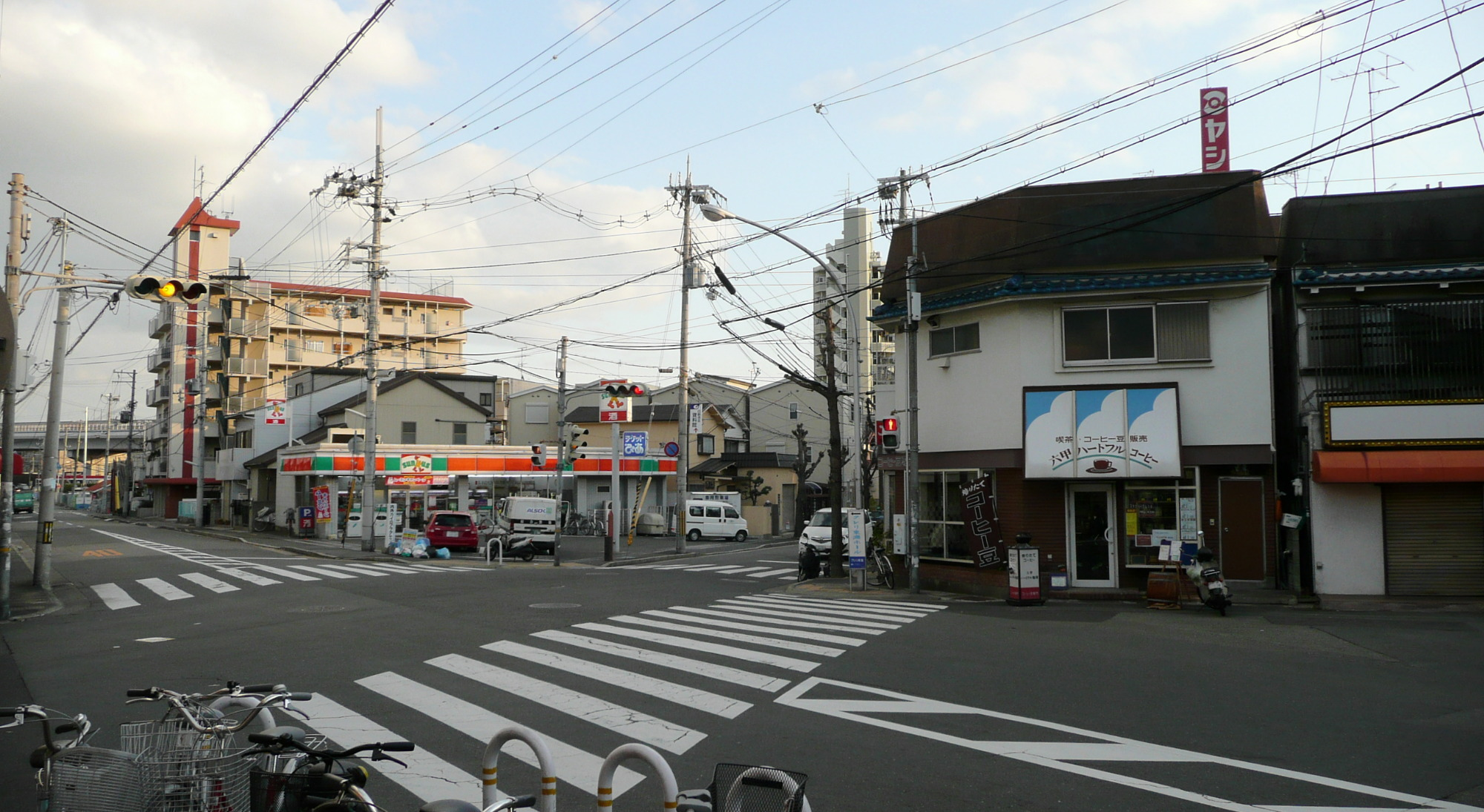 Hanshin Electric Railway,Main Line,Sumiyoshi Station plaza. /阪神本線住吉駅前